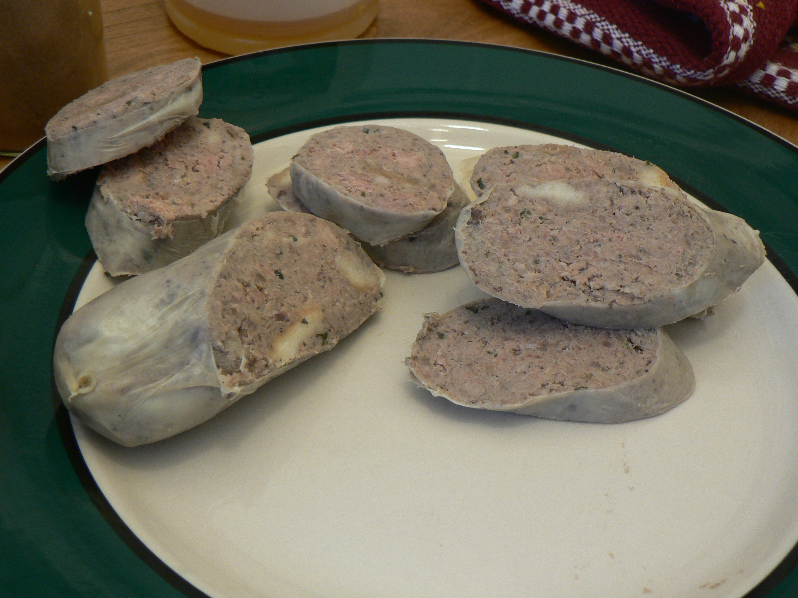 Liverwurst, Slovakian style